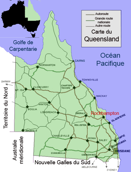 Rockhampton, Queensland (carte)